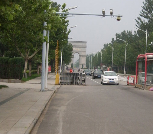 Picture of university area in Langfang, China